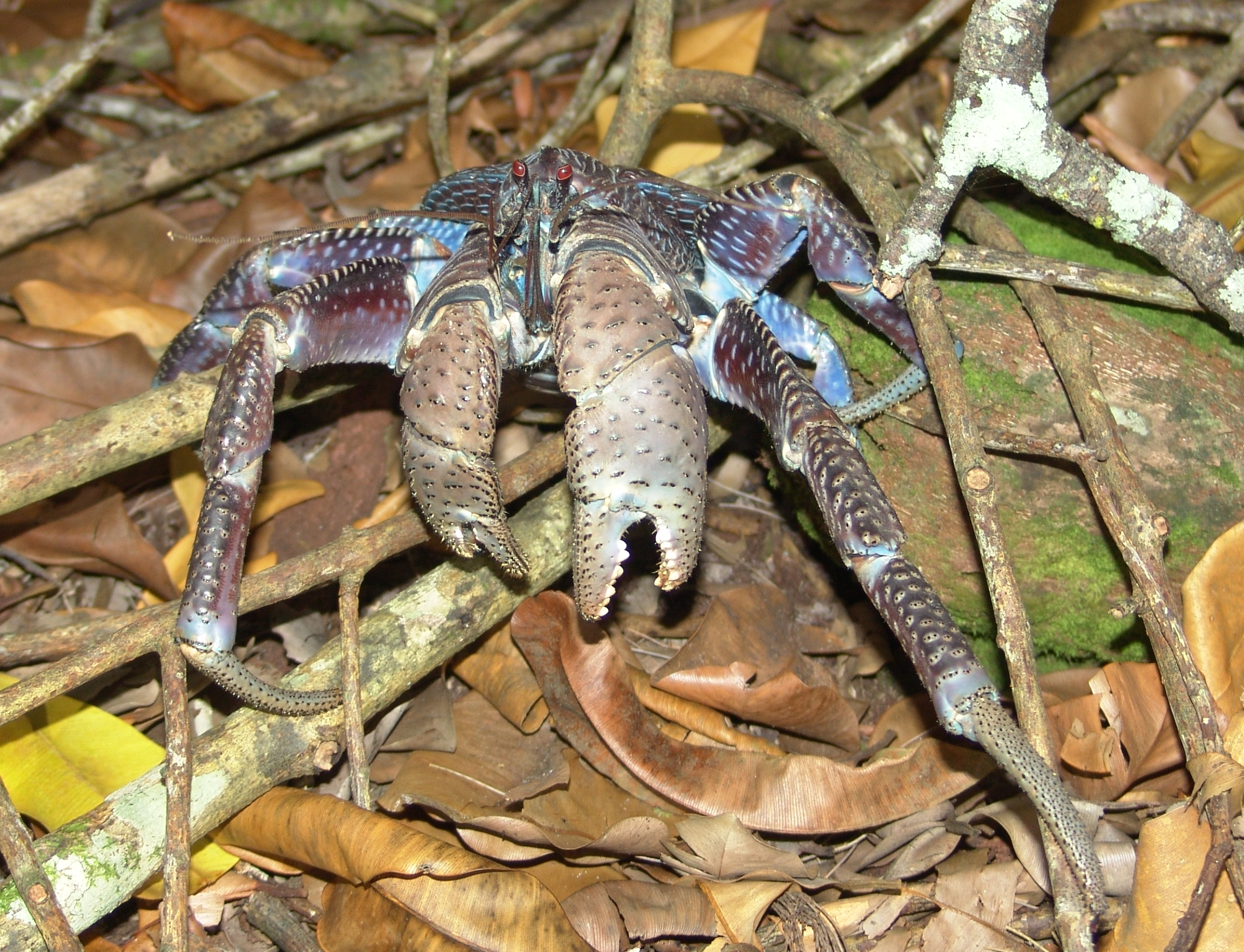 Diego Garcia (Chagos Archipelago) British Indian Ocean Territory